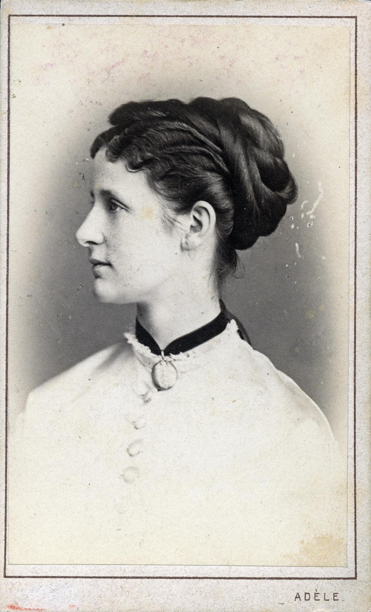 Princess Maria Annunziata of Bourbon-Two Sicilies.